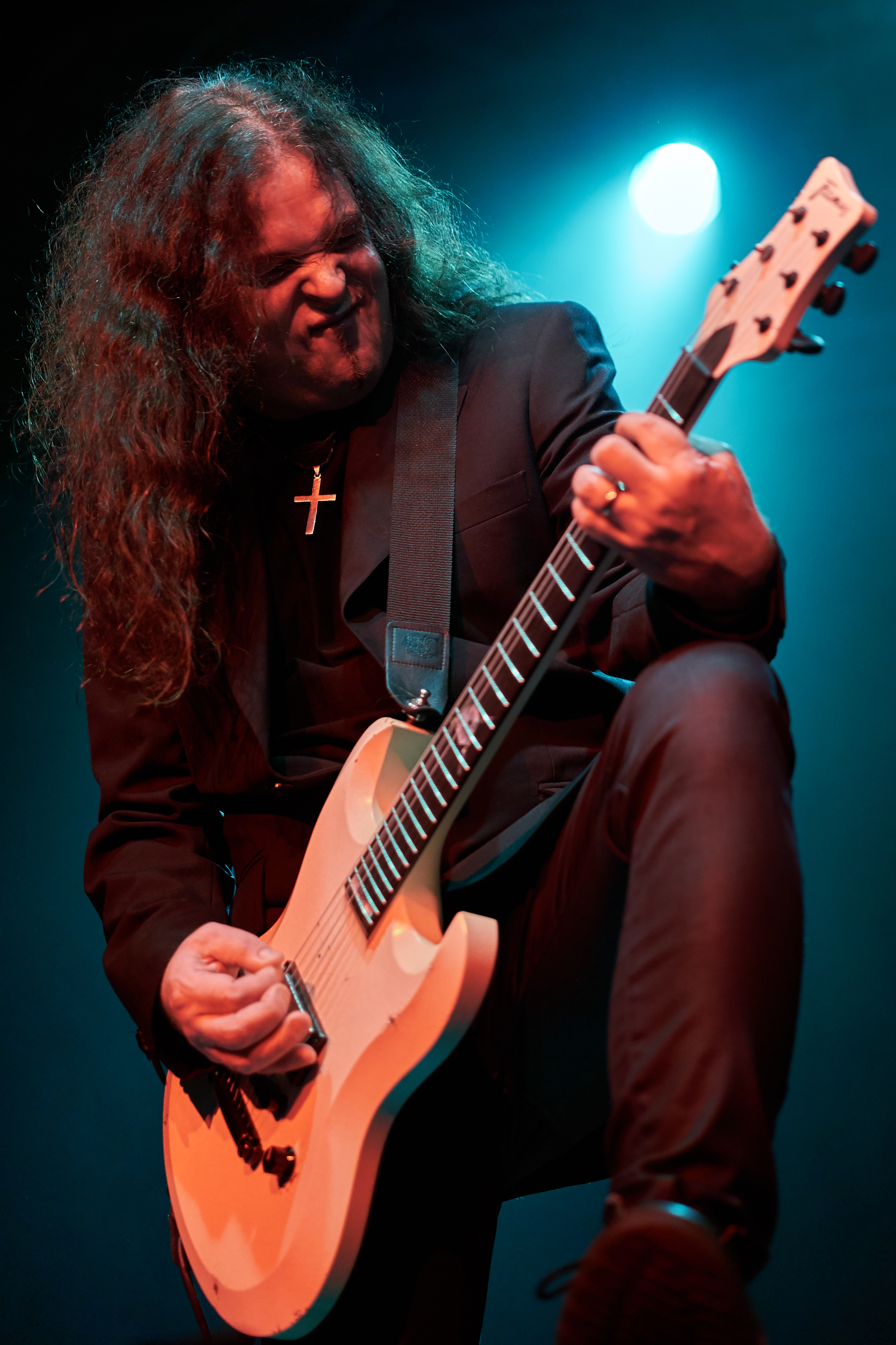 Swedish band Candlemass at Hammer of Doom Festival, Würzburg, Posthalle, 21.11.2015 Festivalsommer This photo was created with the support of donations to Wikimedia Deutschland in the context of the CPB project "Festival Summer". Personality rights warning Although this work is freely licensed or in the public domain, the person(s) shown may have rights that legally restrict certain re-uses unless those depicted consent to such uses. In these cases, a model release or other evidence of consent could protect you from infringement claims.